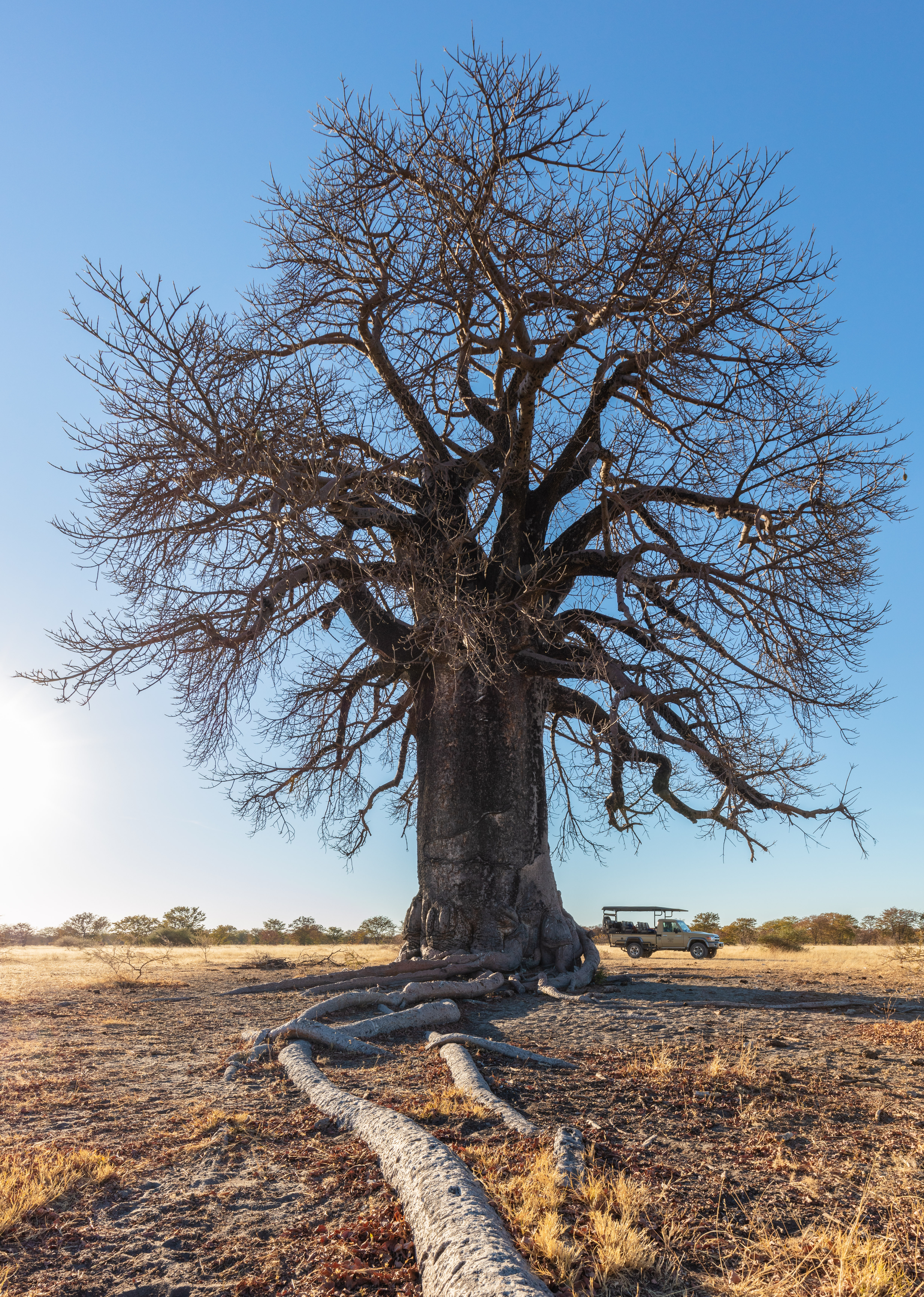 Baobab (Adansonia digitata), Makgadikgadi Pans National Park, Botswana